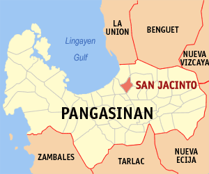 Map of Pangasinan showing the location of San Jacinto